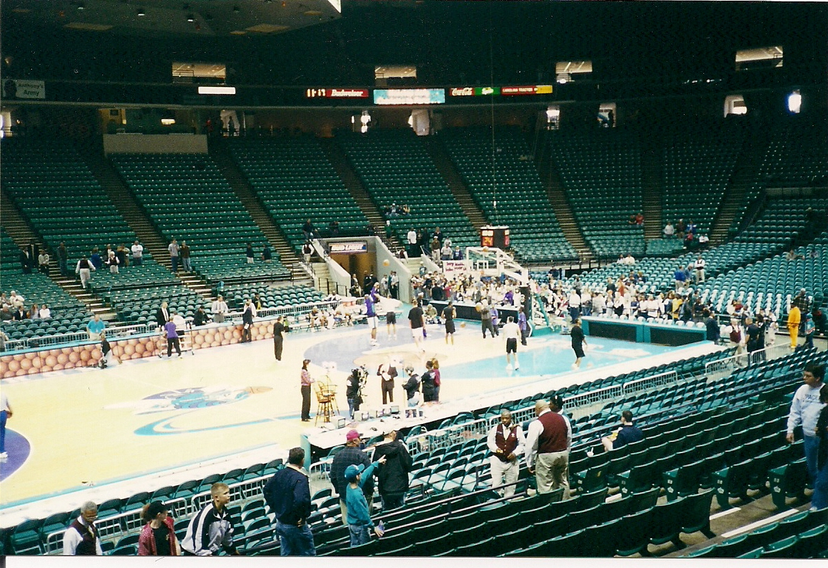 Author: Chris Miller Source: Took picutre myself on 9 April 2000. Picture scanned in on 20 May 2009. Purpose: To show the inside of the now demolished Charlotte Coliseum.